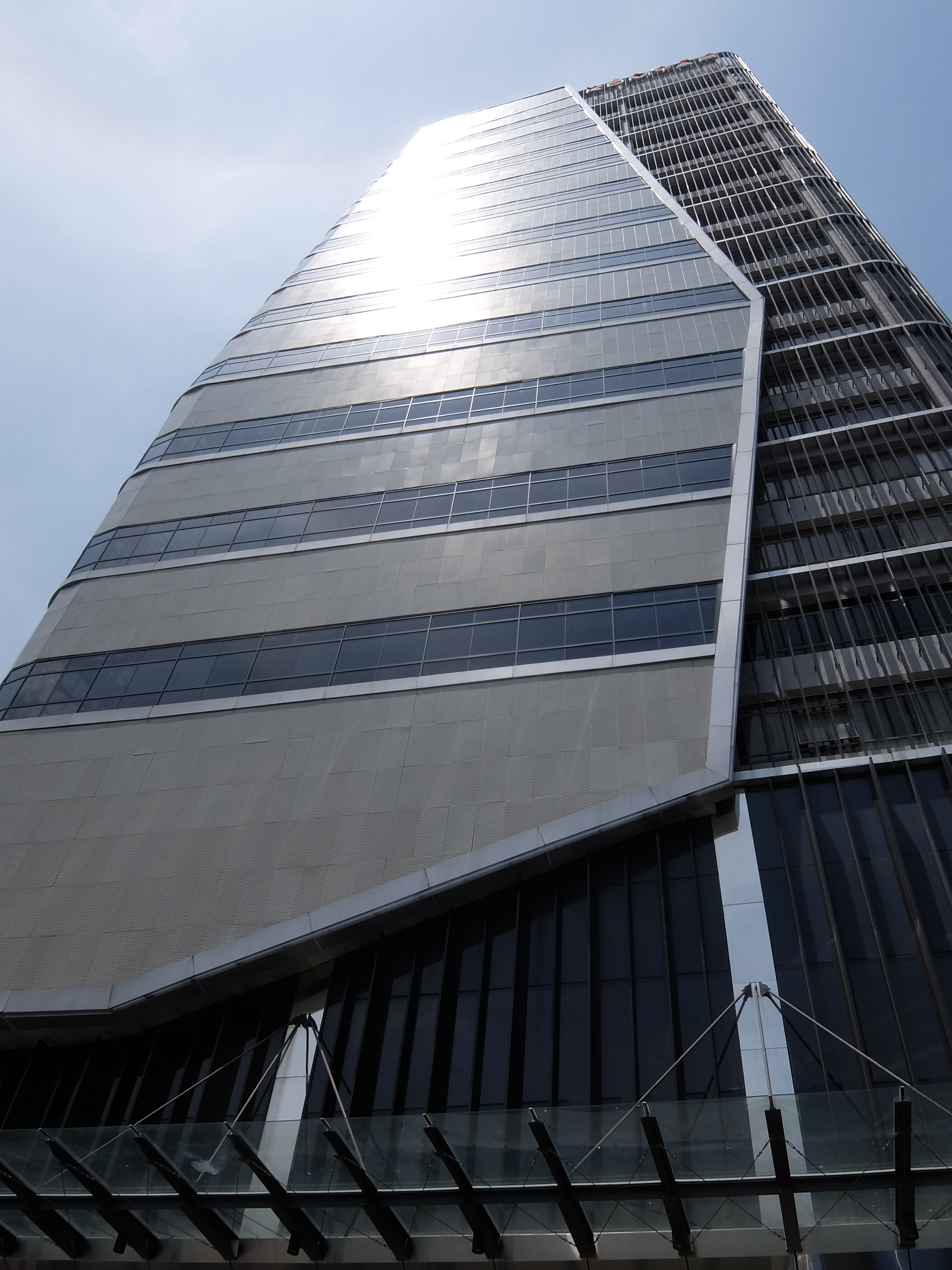 KOMTAR JBCC Tower, Johor Bahru, Johor, Malaysia